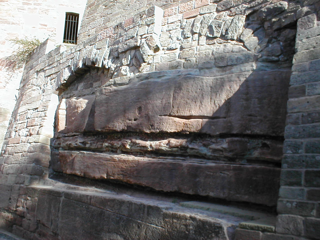 Picture shows the southern wall of the Hohe Bastei, the main artillery-building of the castle Plassenburg in Kulmbach.